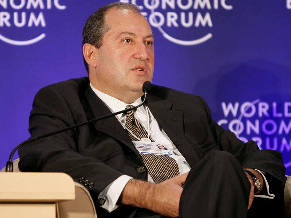 Armen Sargsyan, Prime Minister of Armenia 1996–1997, at the World Economic Forum on Europe and Central Asia in Istanbul, Turkey